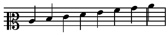 Diatonic scale on C, mezzo-soprano clef.